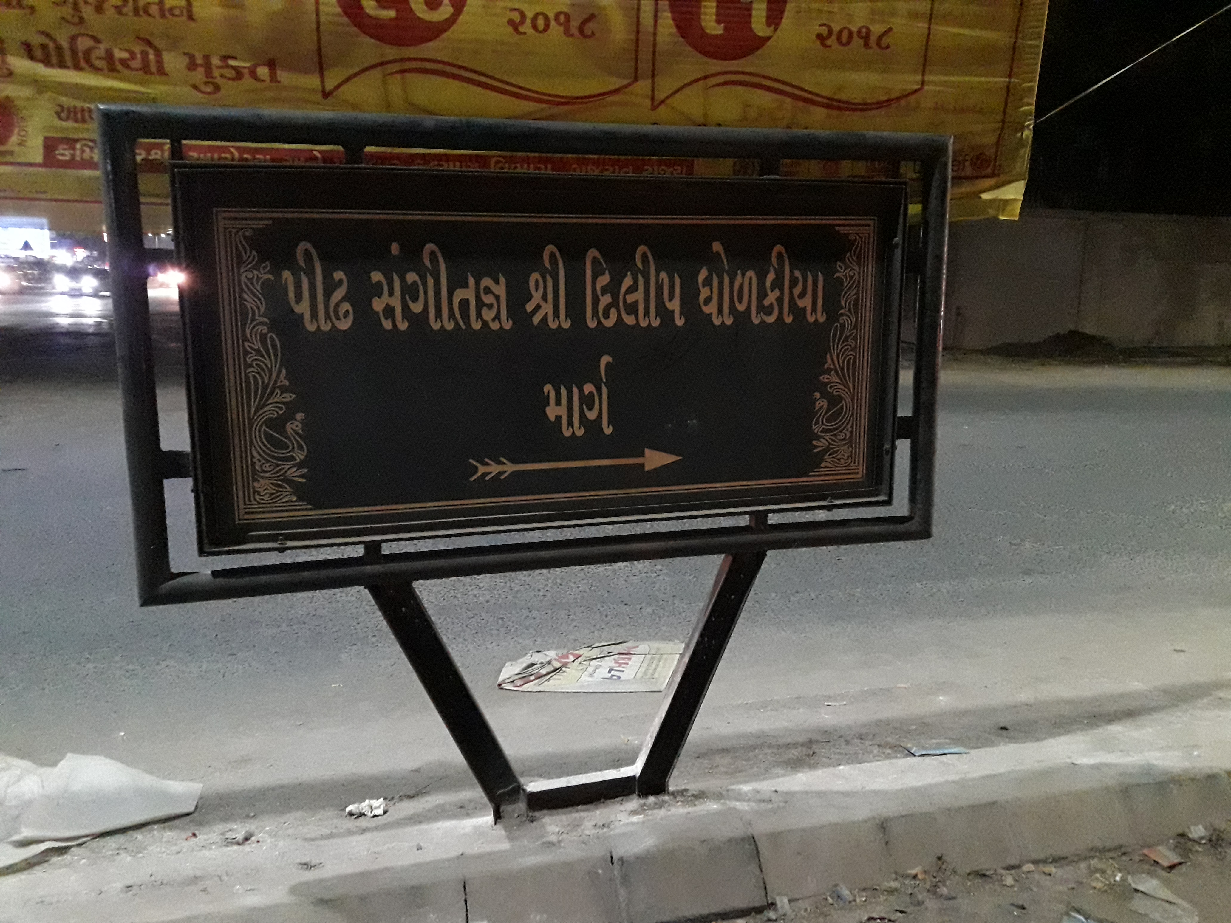 Dilip Dholakia Marg (Road) near Mansi Circle, Ahmedabad, Gujarat.